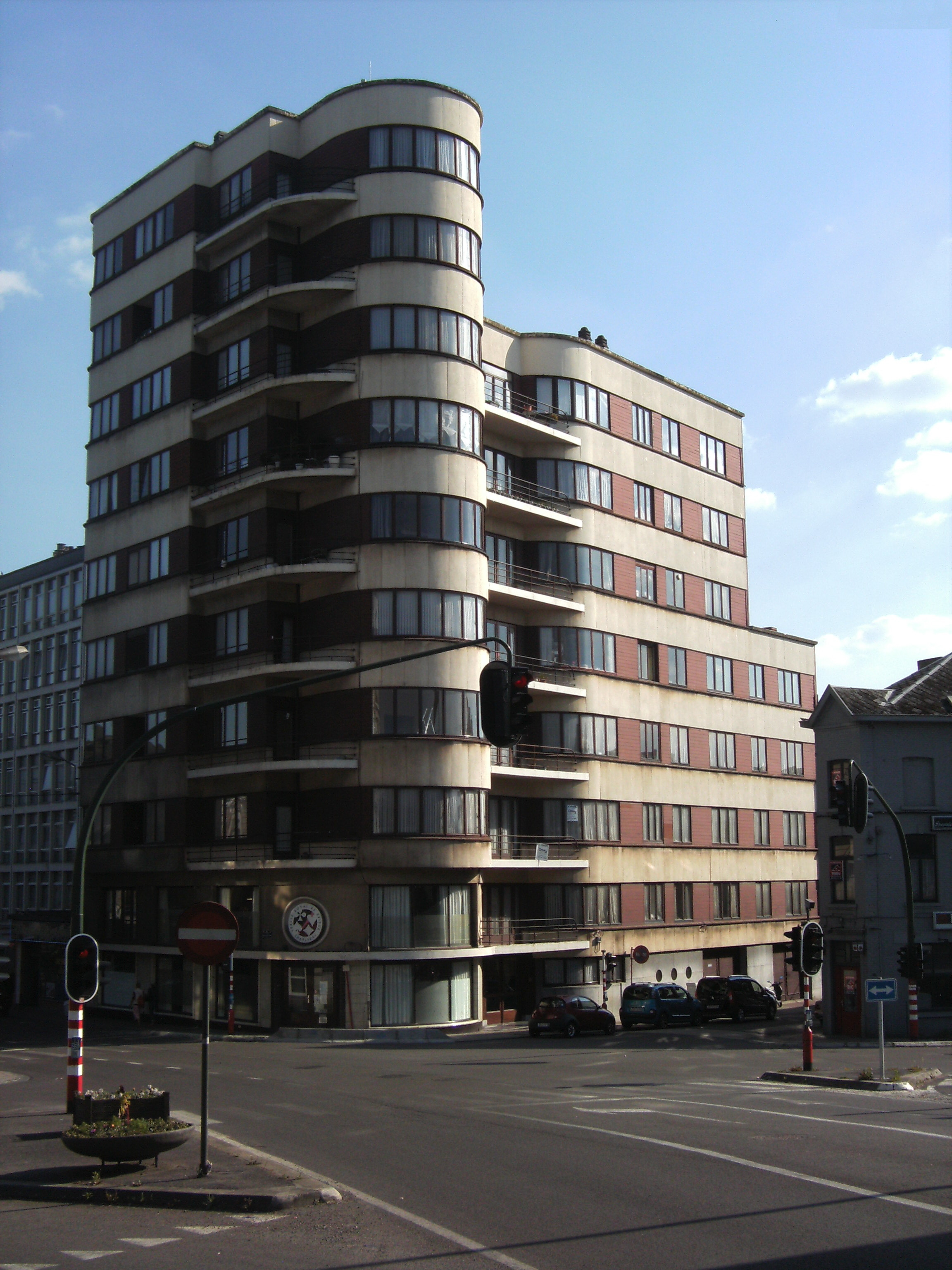 Marcinelle (Charleroi-Belgium) - Meurée avenue - Résidence Albert - architect Marcel Leborgne - 1938.